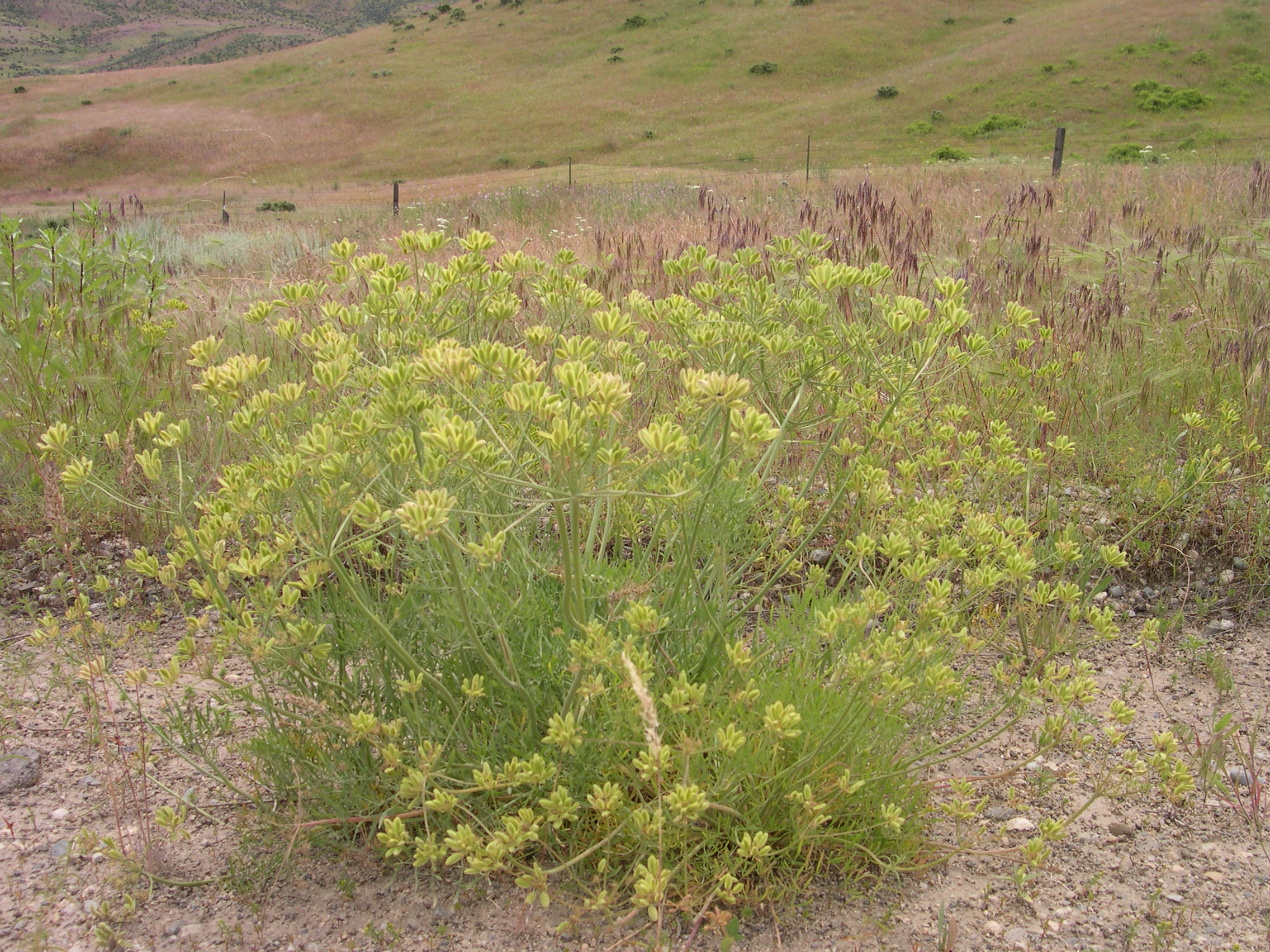 Lomatium packardiae in SW Idaho